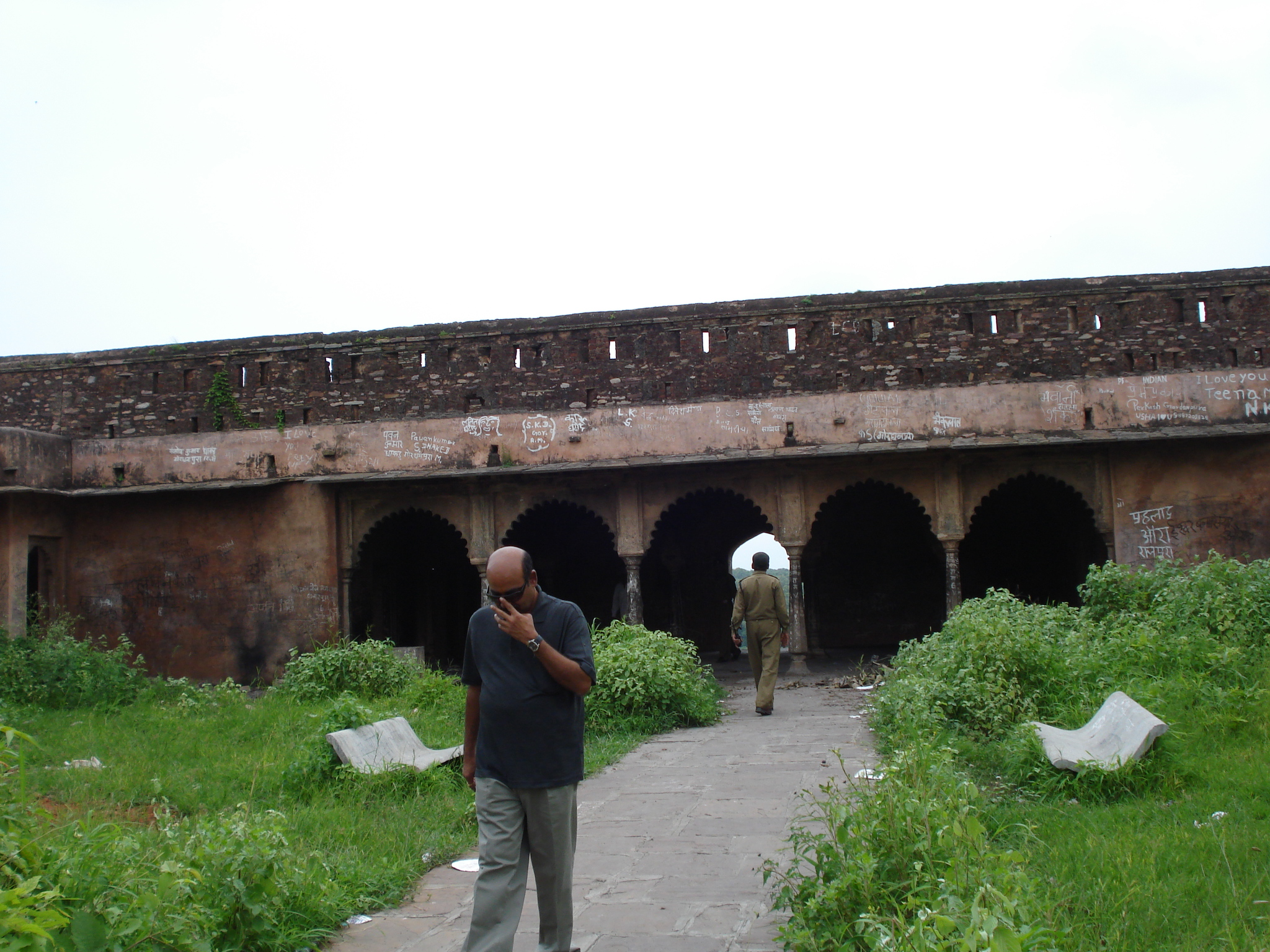 The Royal court at Hinglaj Fort in Mandsaur district in Madhya Pradesh, India